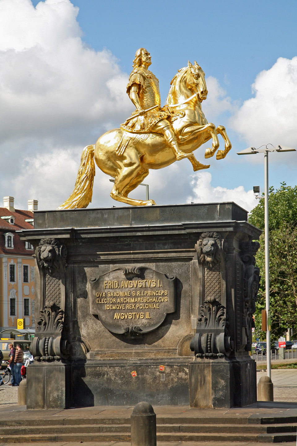 Dresden, equestrian statue of the Saxon Elector "August der Starke".